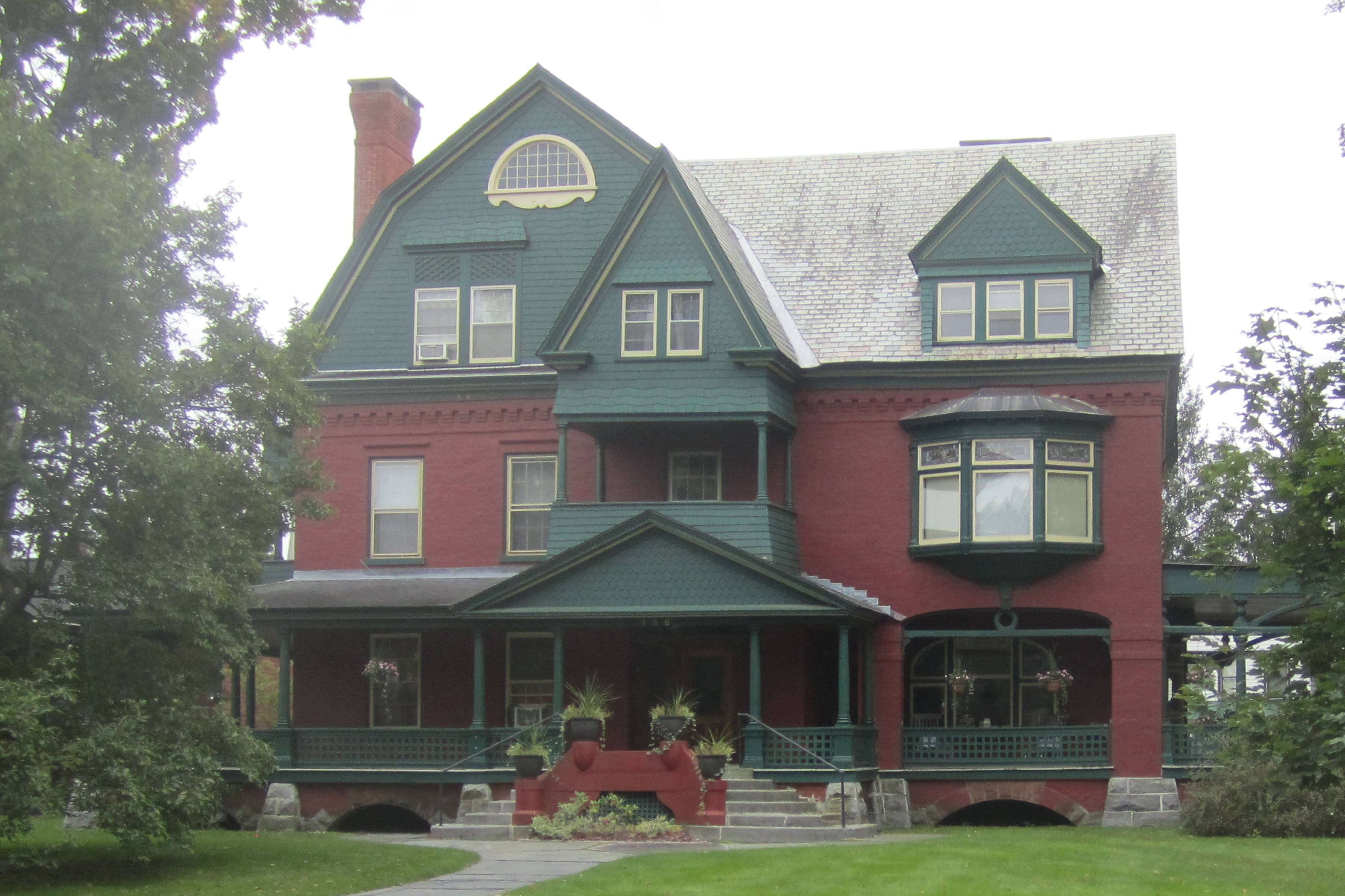 156 Caroline Street - Designed by R. Newton Brezee for the Honorable Edward Kearney (1886-87) Captioned As { }